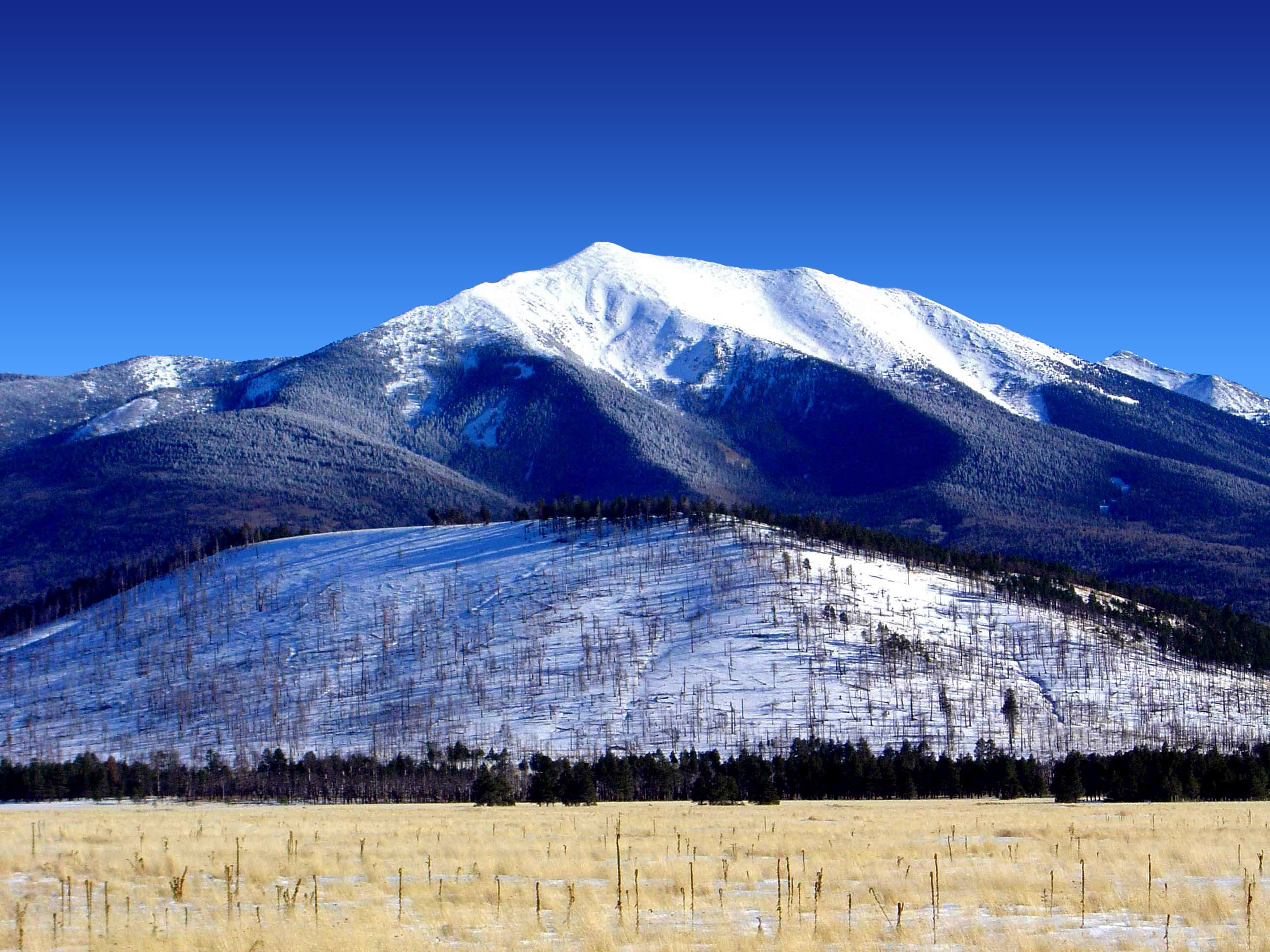 The San Francisco Peaks in the midst of winter with solid blue sky above. Taken in 2004 by Bob Blasi. Credit: USDA Forest Service, Coconino National Forest.